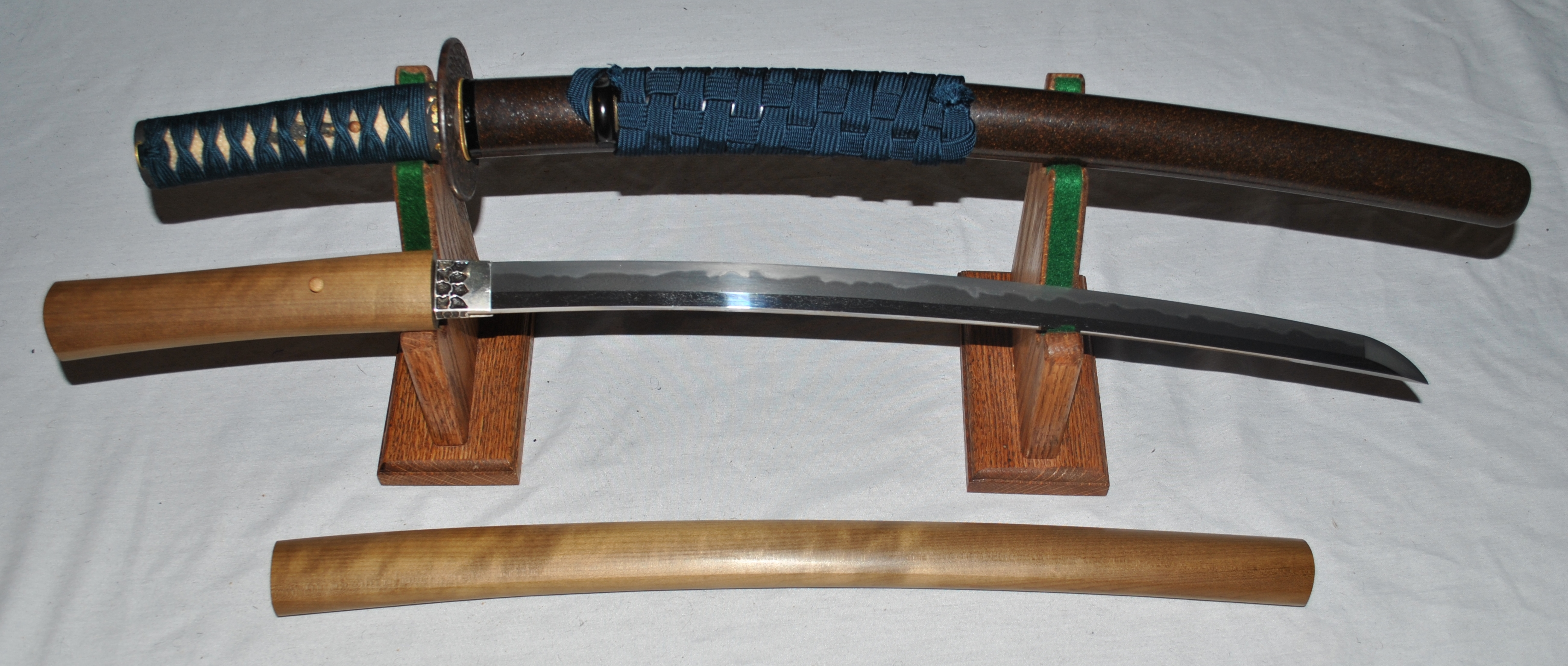 Antique Japanese (samurai) wakizashi.